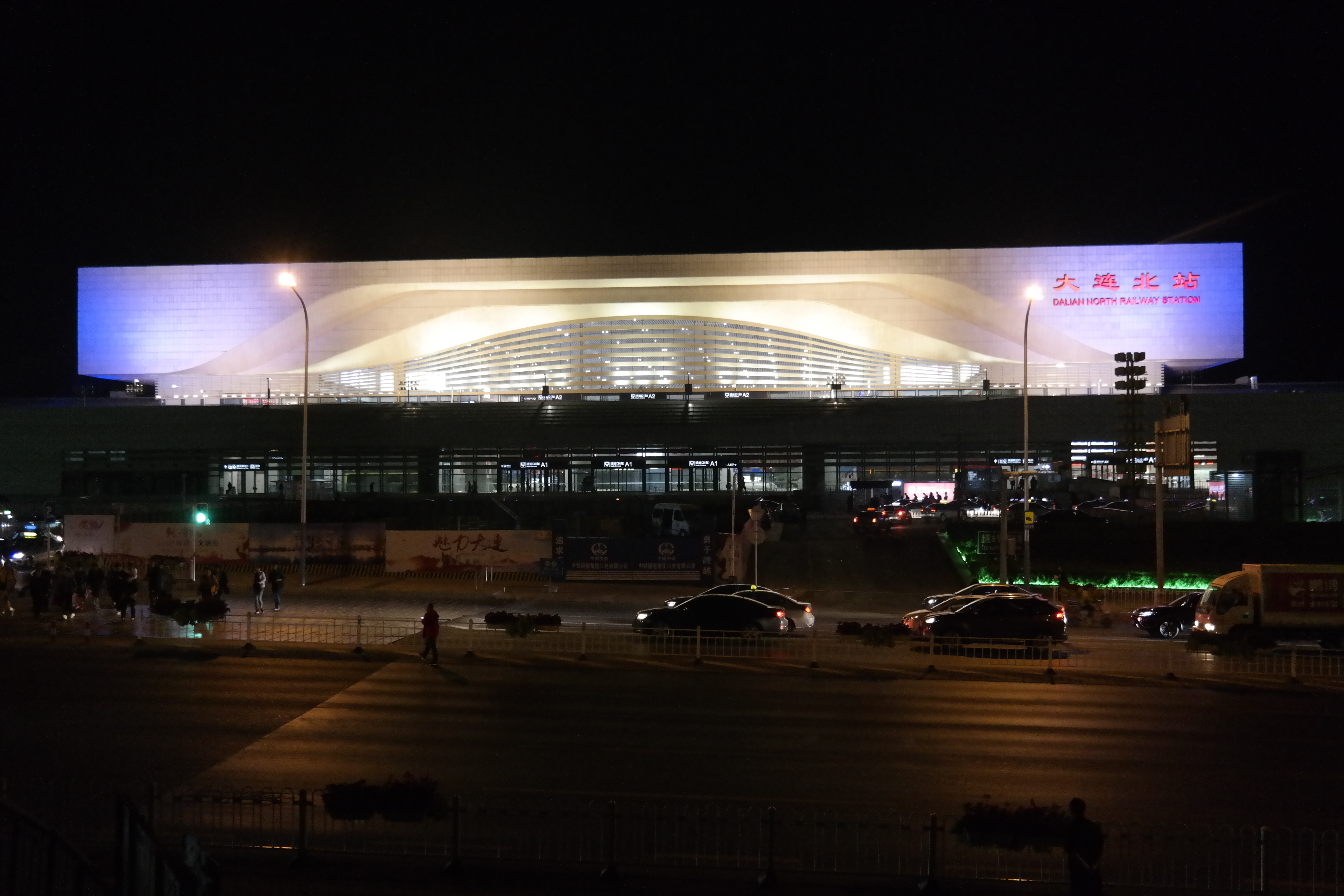 夜拍大连北站外景